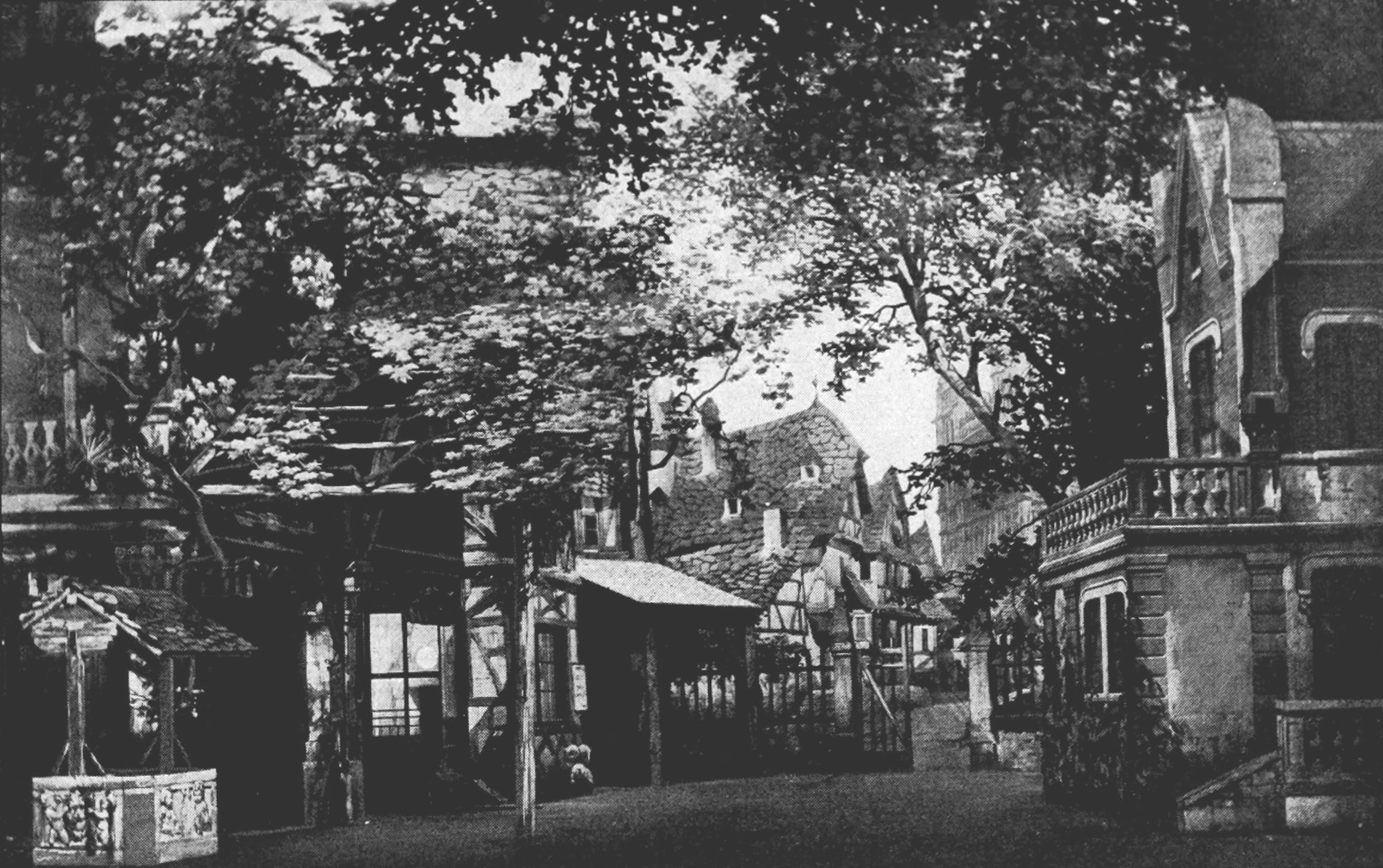 Massenet - Manon, act I - Setting - Lande Title: The Victrola book of the opera : stories of one hundred and twenty operas with seven-hundred illustrations and descriptions of twelve-hundred Victor opera records Year: 1917 (1910s) Authors: Victor Talking Machine Company Rous, Samuel Holland Subjects: Operas Publisher: Camden, N.J. : Victor Talking Machine Co. Text Appearing Before Image: ' Text Appearing After Image: SETTING OF ACT (French) MANON (Man-on) OPERA IN FOUR ACTS Words by Meilhac and Gille, after the novel of Abbe Prevost. Music by Jules Massenet.First production at the Opera-Comique, Paris, January 19, 1884; at Brussels, March 15, 1884.First London production May 7, 1885; in English by the Carl Rosa Company, at Liverpool,January 17, 1885. In French at Covent Garden, May 19, 1891 ; in Italy at Milan, October 19,1893. First American production at New York, December 23, 1885, at the Academy ofMusic, with Minnie Hauk, Giannini and Del Puente. First New Orleans production January4, 1894. Some notable revivals were: in 1895 with Sybil Sanderson and Jean de Reszke;in 1896, with Melba and de Reszke; in 1899 with Saville, Van Dyk, Dufriche and Plan^on;in 1909, at the Metropolitan, with Caruso, Farrar, Scotti and Note; and in 1912, with Caruso,Farrar, Gilly and Reiss. Cast CHEVALIER DES GRIEUX (Shev-al-W dh GreeW) Tenor COUNT DES GRIEUX, his father . .Bass LESCAUT, (Les-koh) Manons cousin, one o